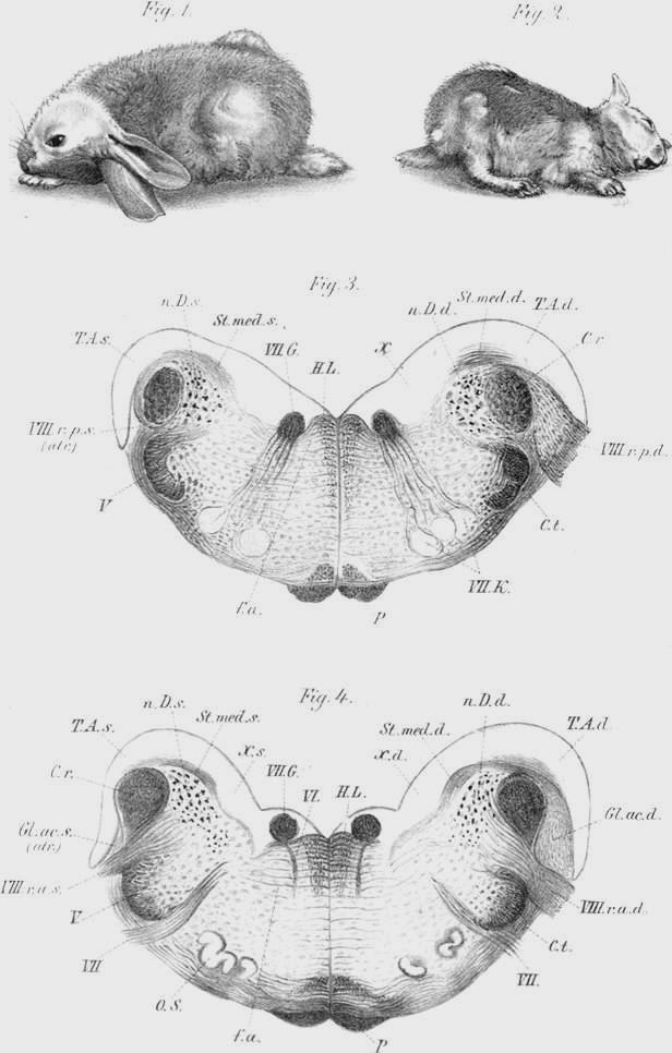 see below for original description in German